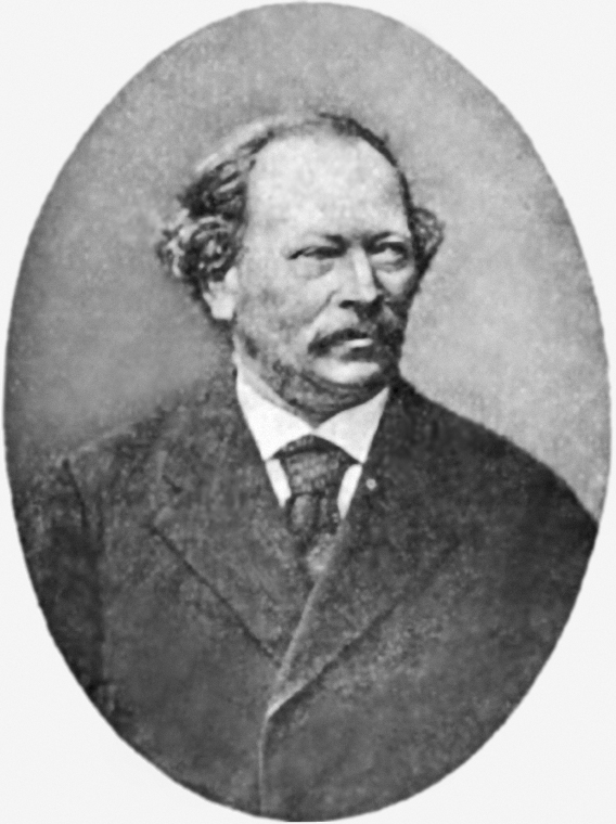 Alexis Lepère the Younger